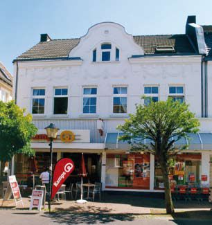 Das Haus Nr. 45 in Bergheim